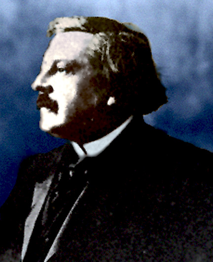 Jose Vicente Concha, colombian negotiator for the Panama Canal.